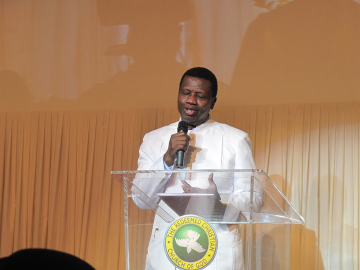 Enoch Adejare Adeboye